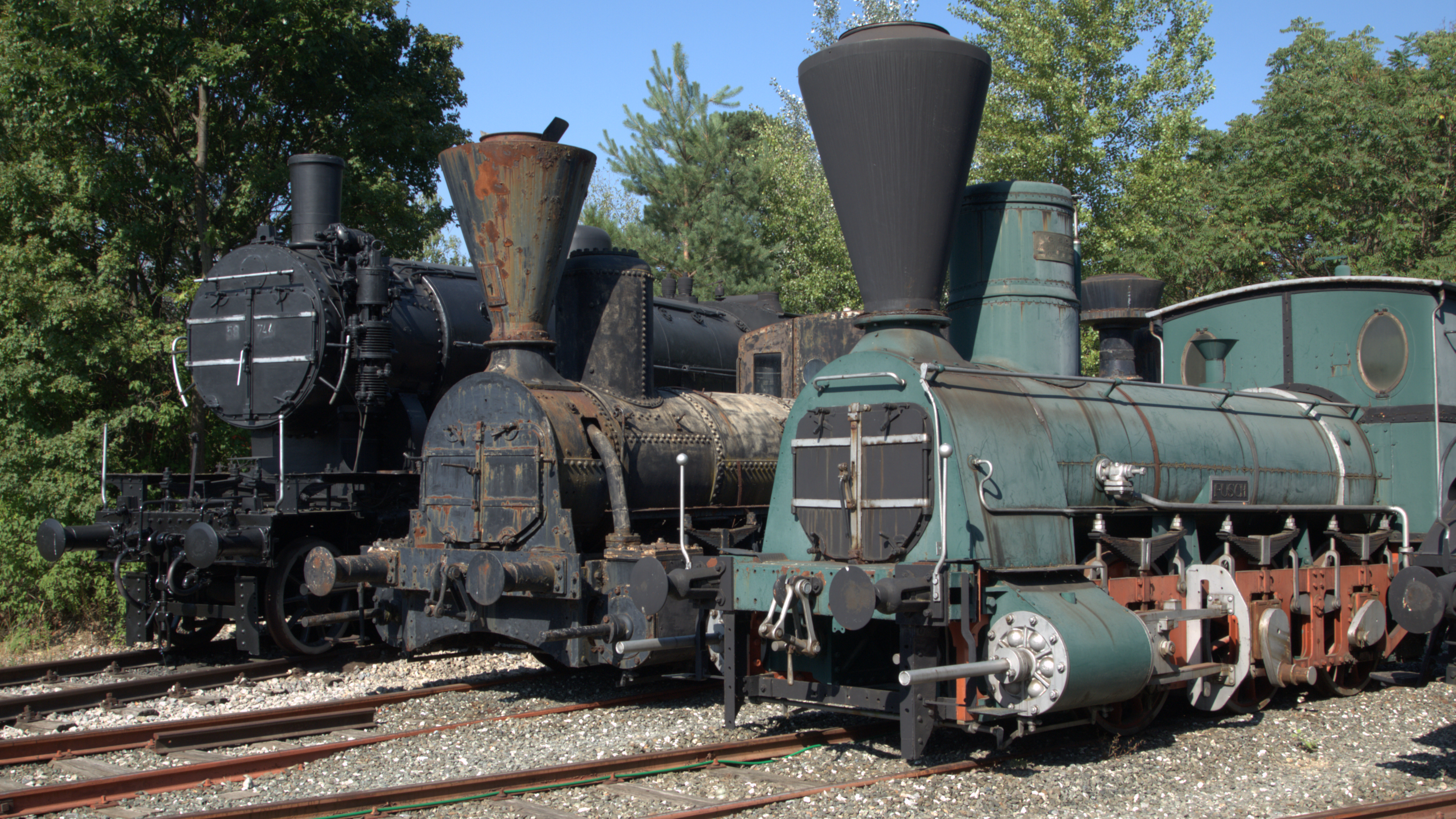 Strasshof, NÖ